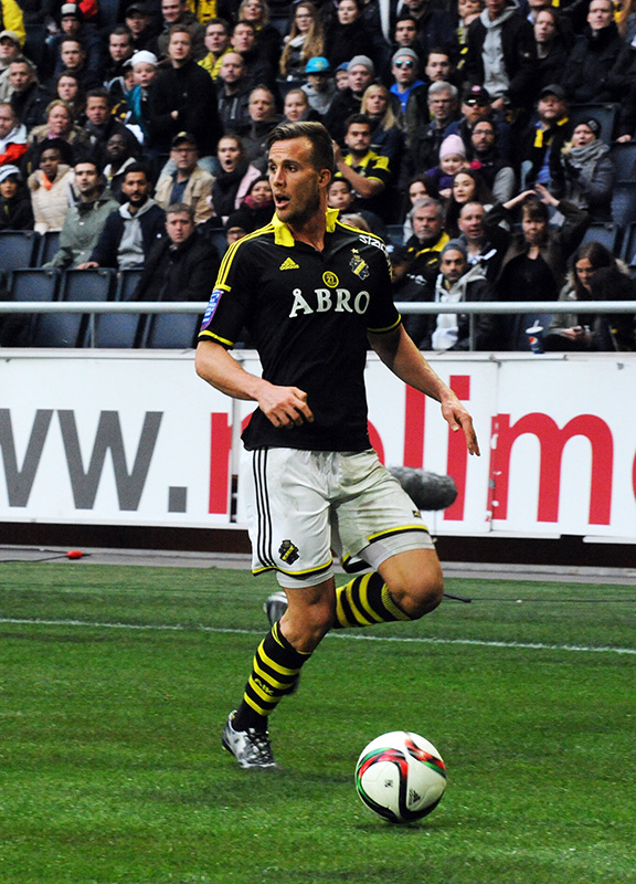 Fredrik Brustad